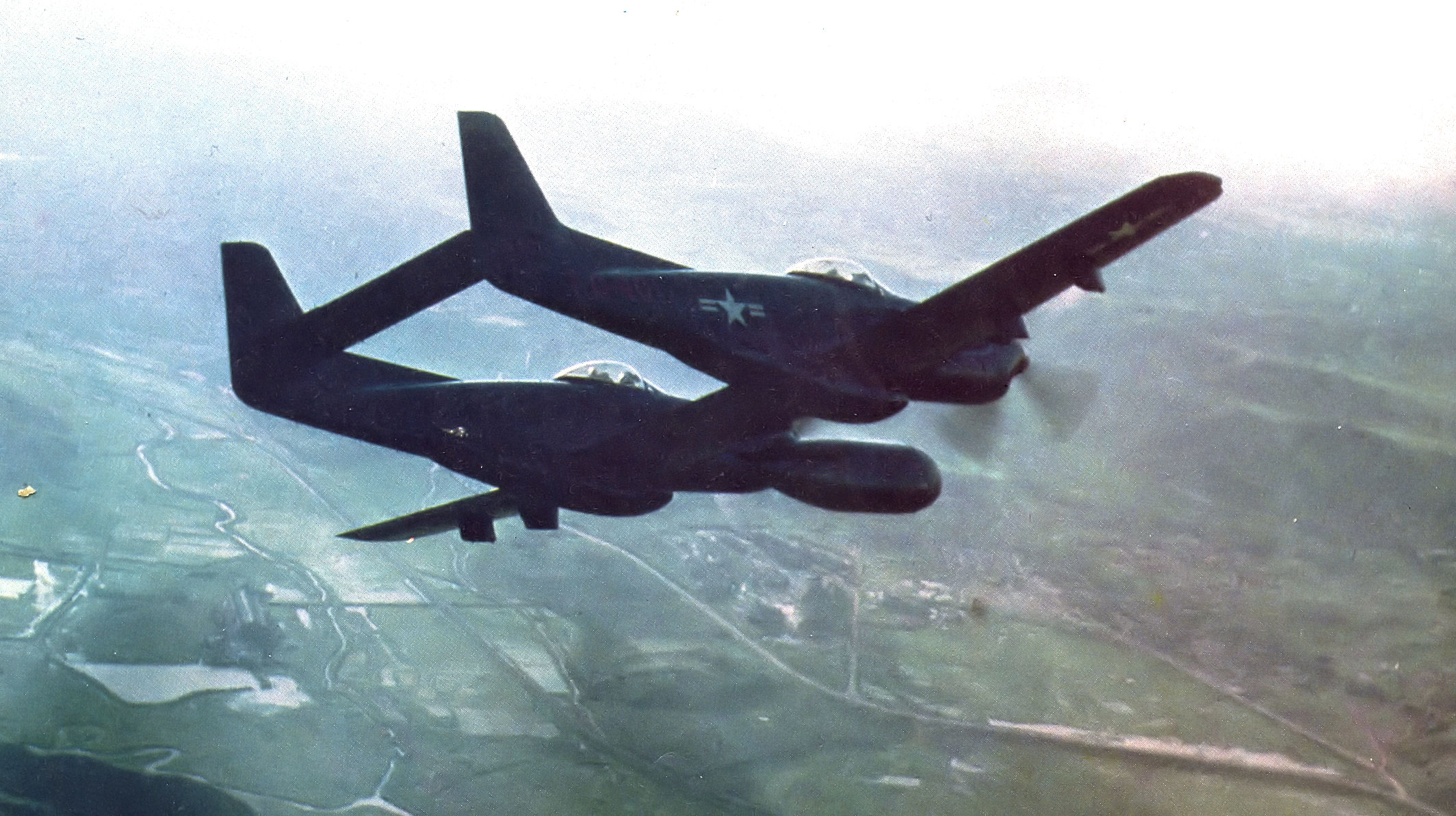 F-82G on a strafing run - Korean War 1951